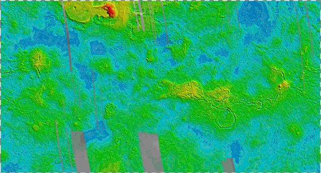 Topographic Map of Venus from Magellan (Mercator Projection).